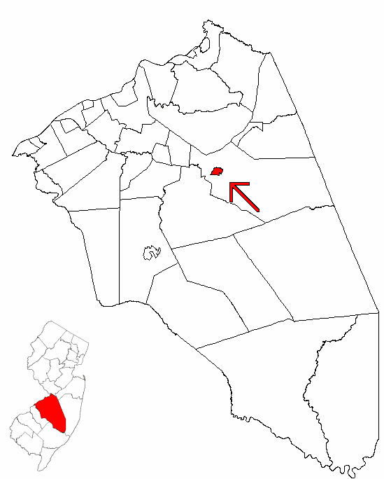 Map of Burlington County highlighting Pemberton